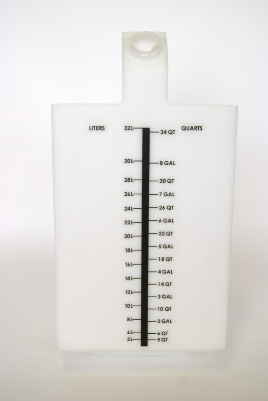 Image illustrating the ability to mold graphics into rotationally molded parts.